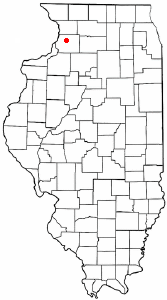 Category:Illinois city locator maps